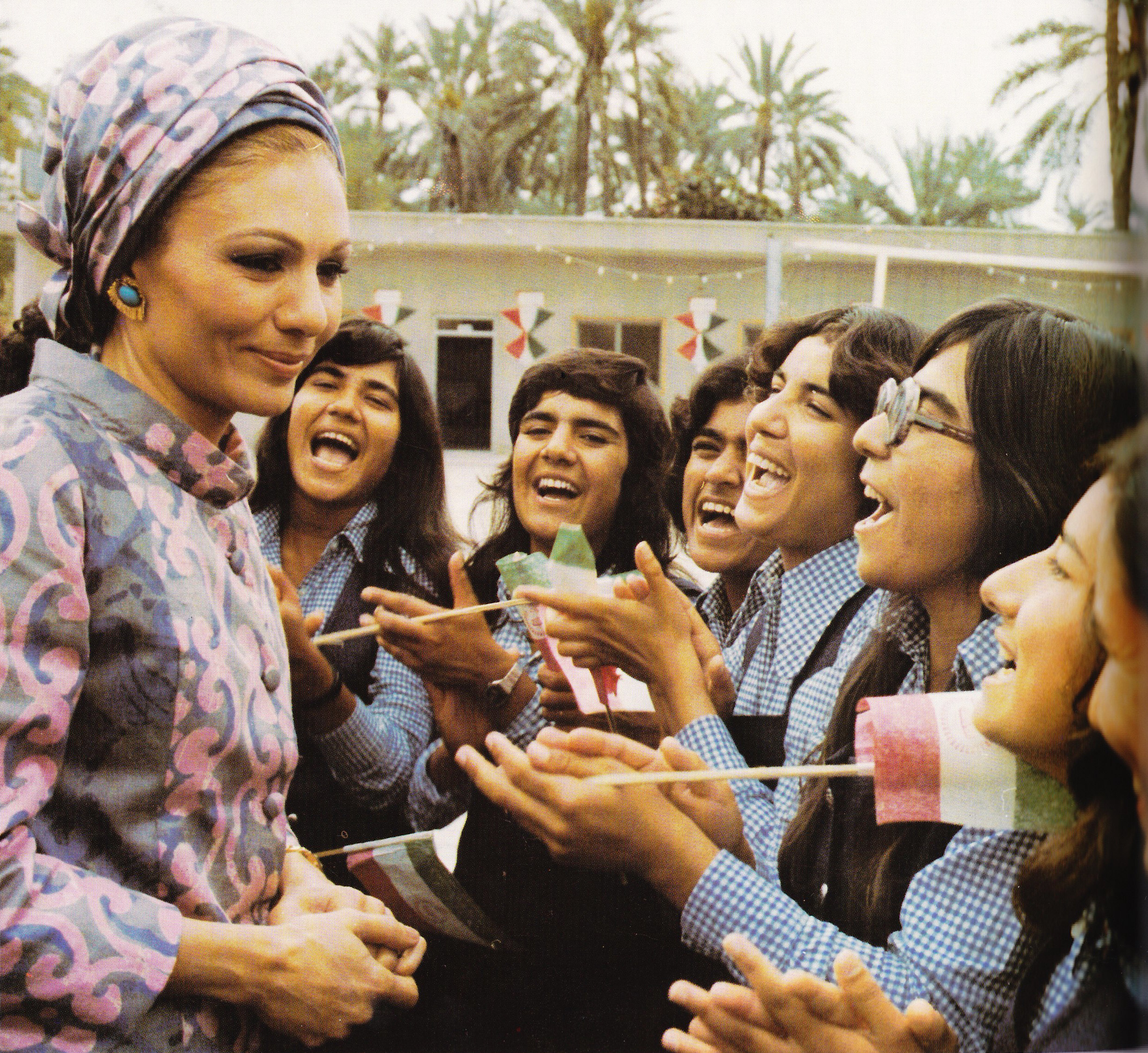 Shahbanu Farah Pahlavi visiting a high school in Giroft, Kerman, Iran